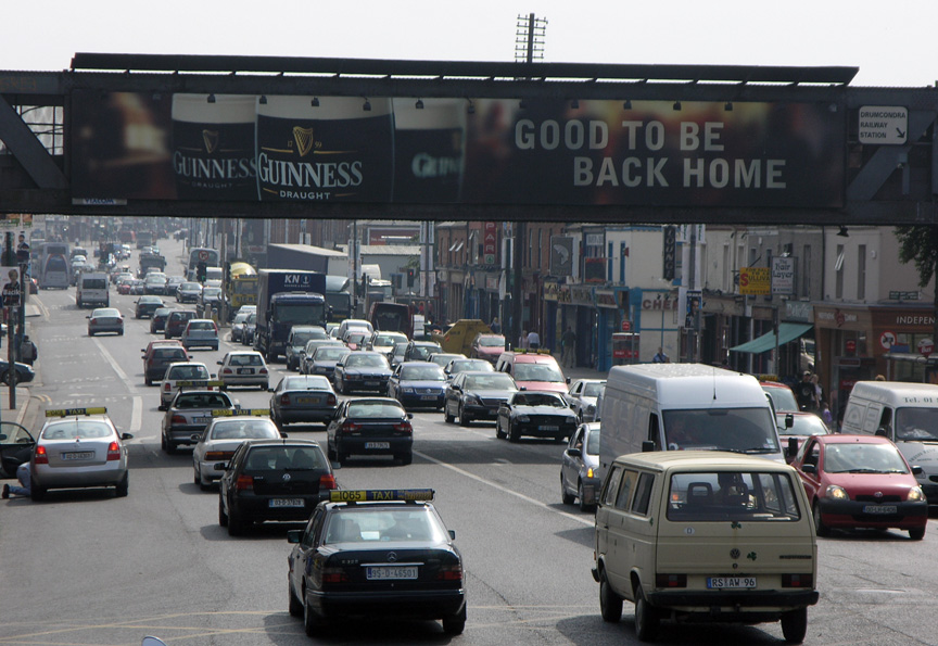 This is an image I took myself using an Olympus C8080W digital camera. It was taken on the way in to Dublin city centre on the airport bus.